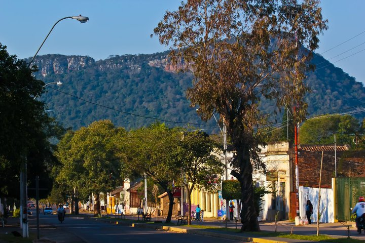 Paraguari street